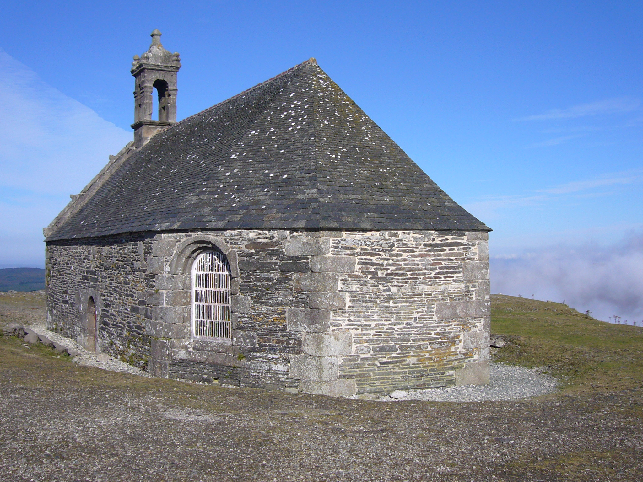 View of Mont Saint-Michel de Brasparts in the Monts d'Arrée in Brittany, France.